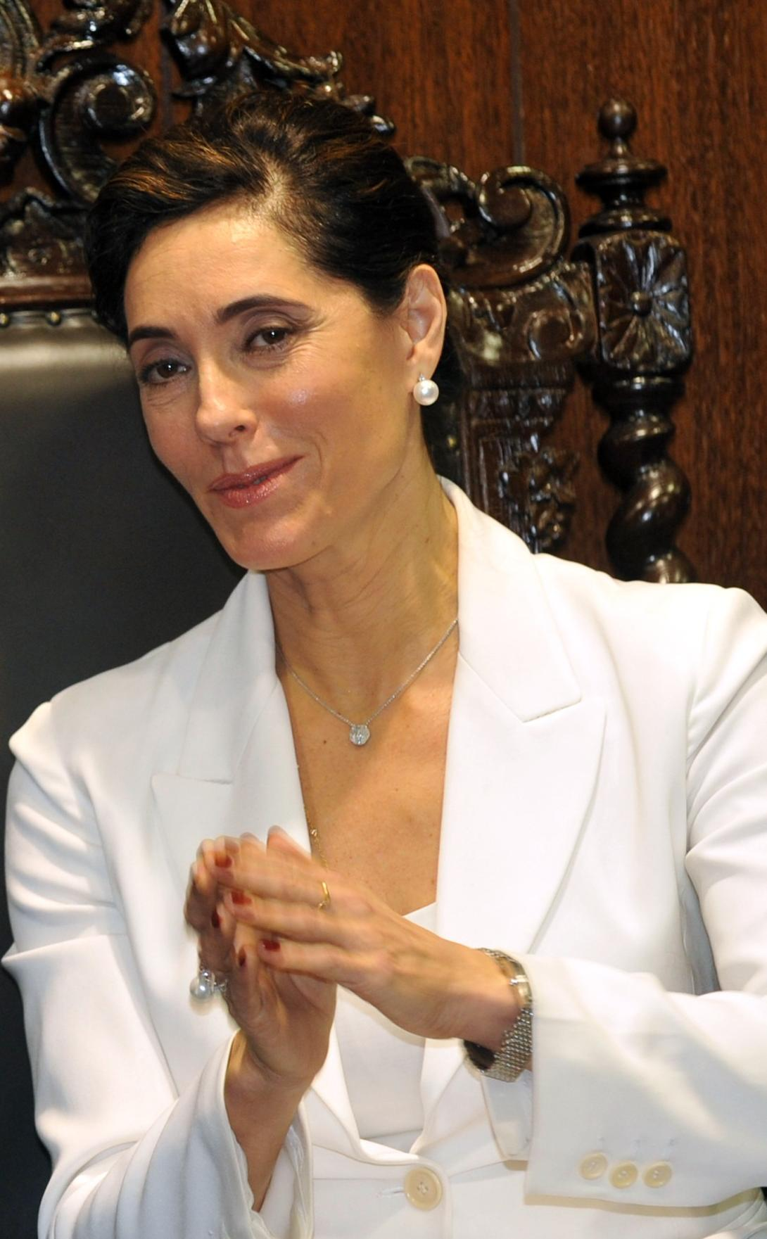 The Brazilian actress Cristiane Torloni.